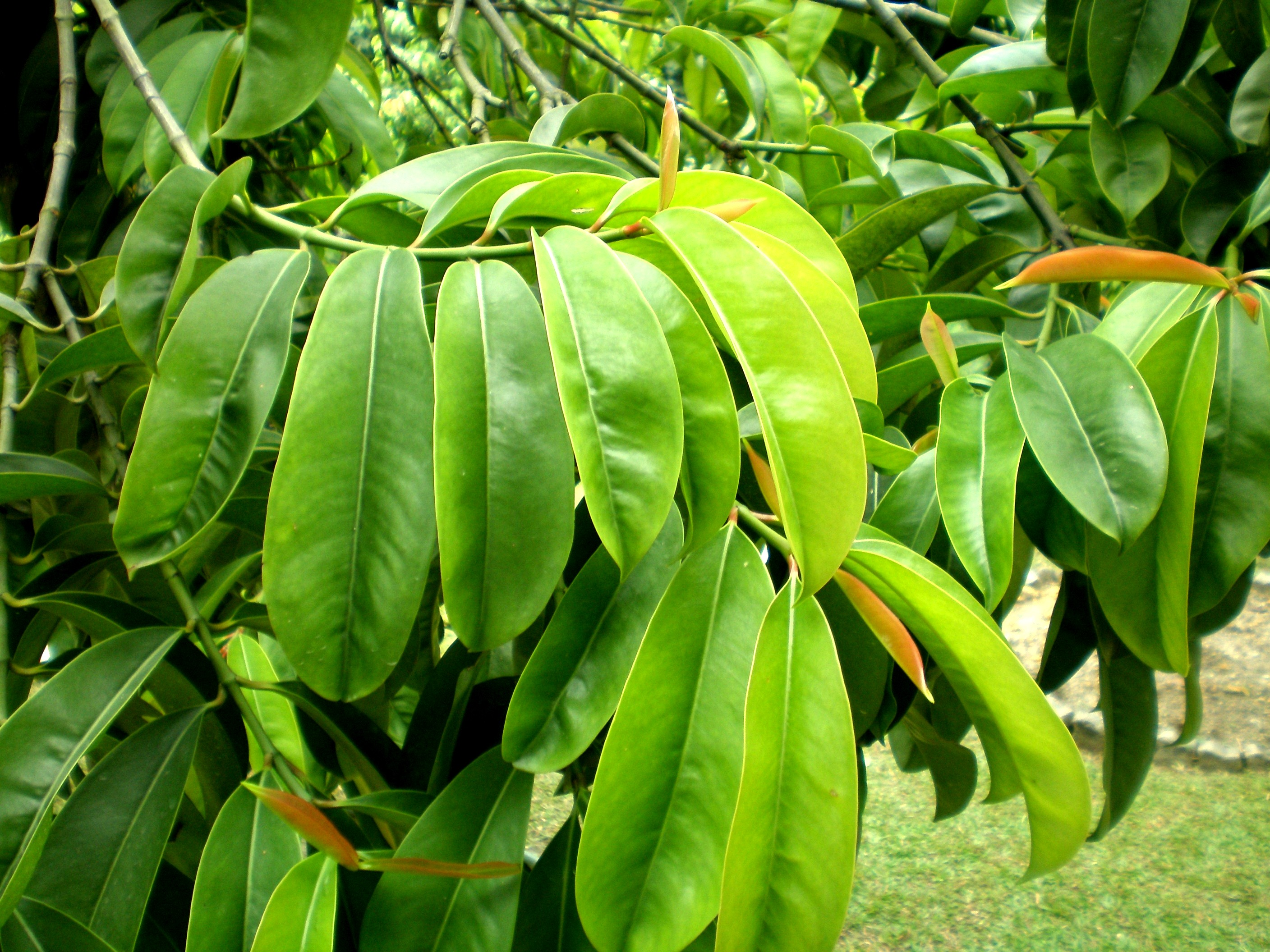 Foliage of Garcinia atroviridis (Guttiferae)